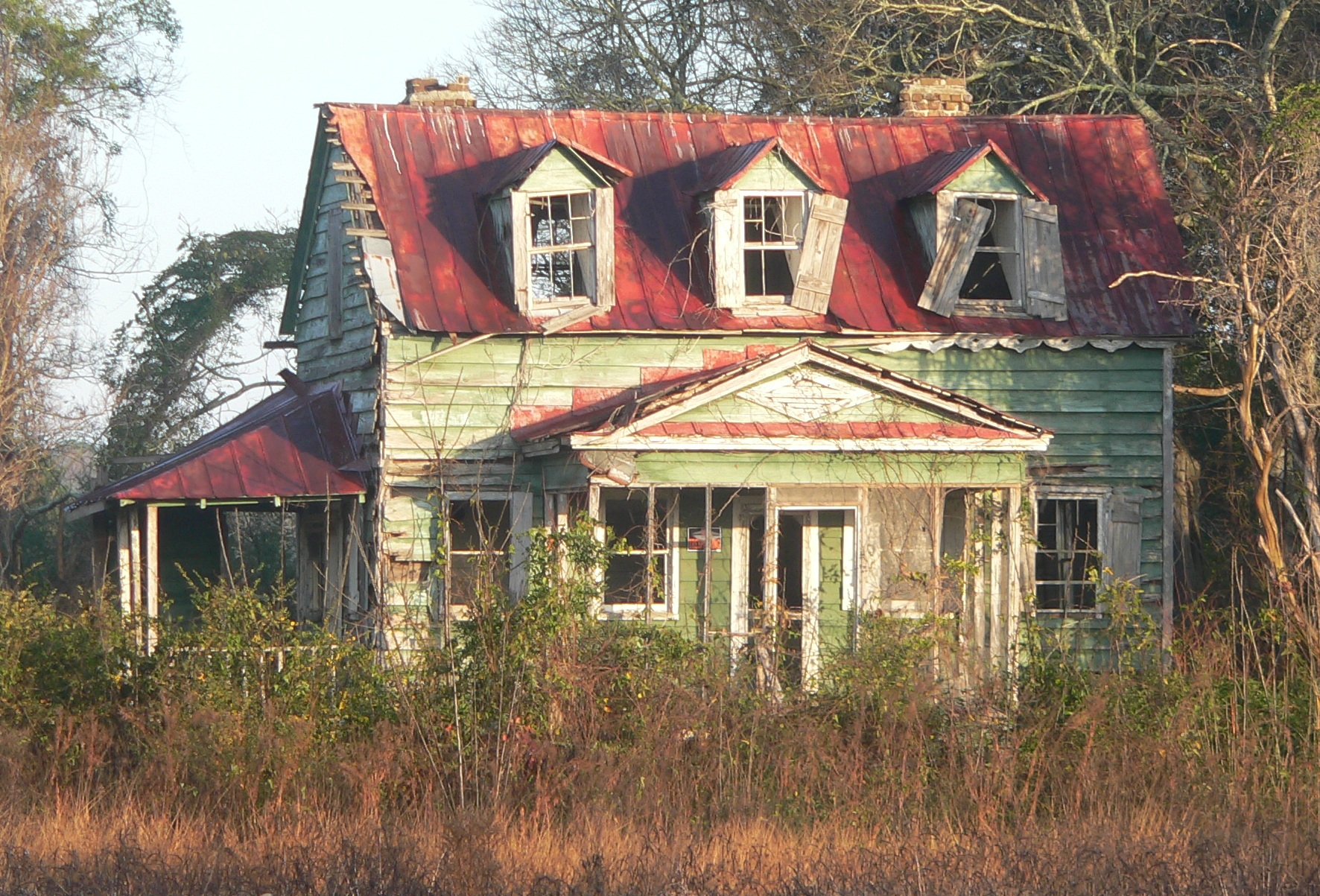 Hutchinson house, located at 7666 Point of Pines Rd, Edisto Island, South Carolina.